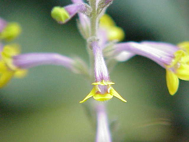 Species: Cryptophragmium ceylanicum Family: Acanthaceae Image No. 2